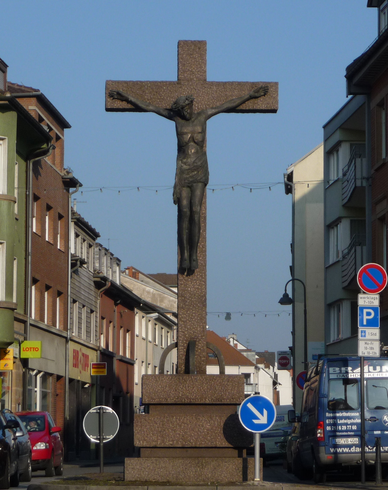 cross in Ludwigshafen, Germany